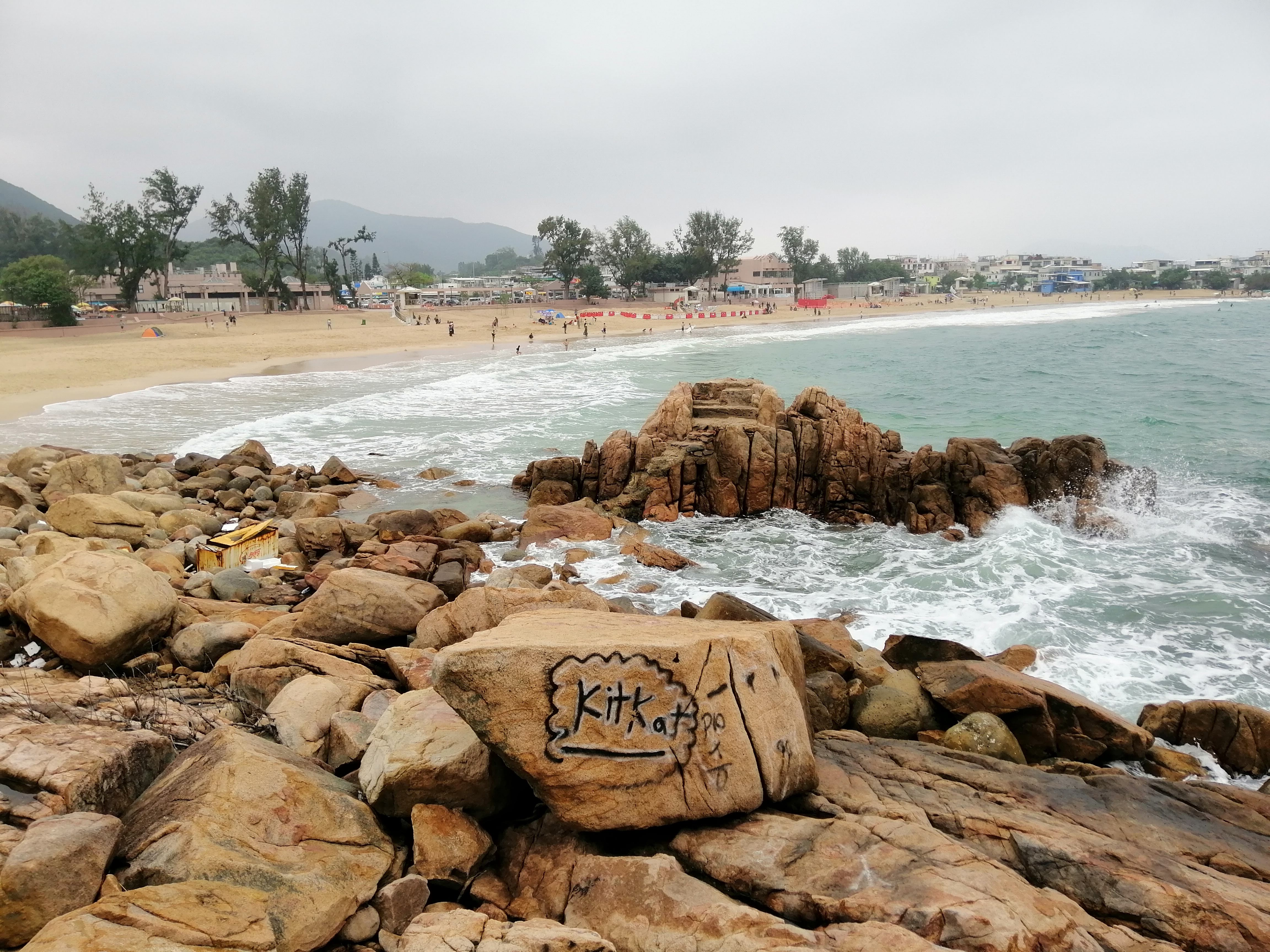 stanley beach rock